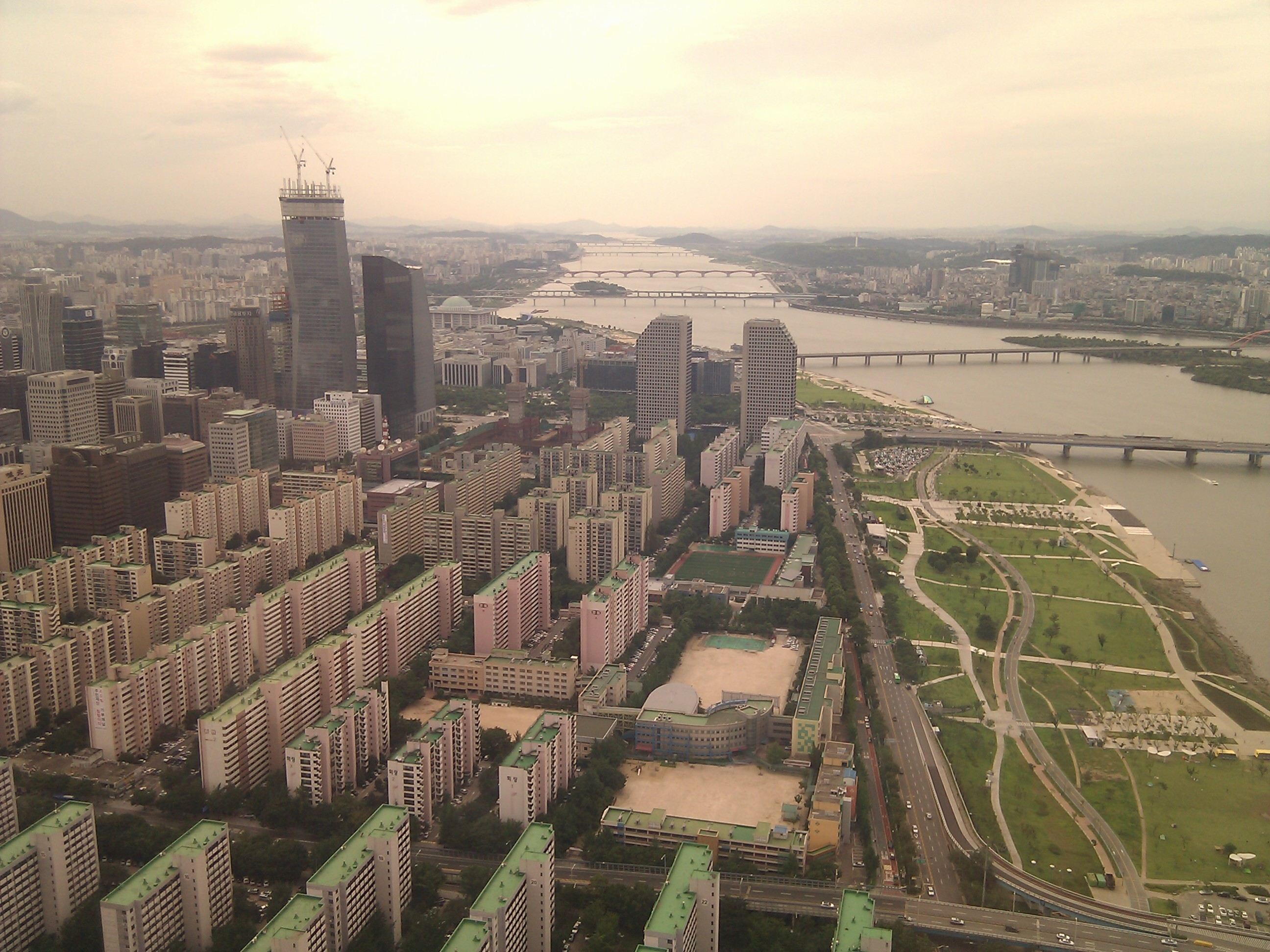 View to the west from 63 Building